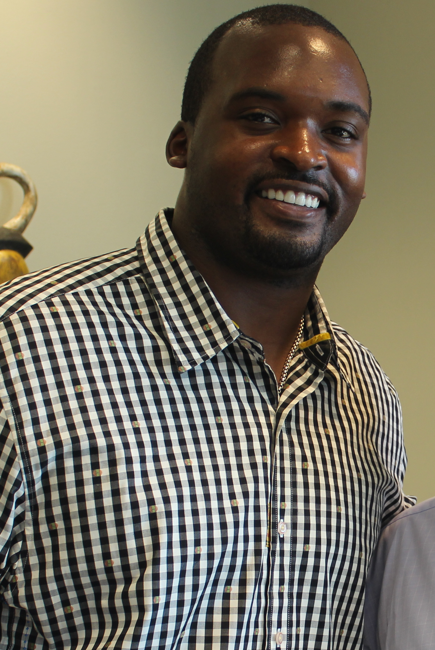 American football player Mathias Kiwanuka in Uganda